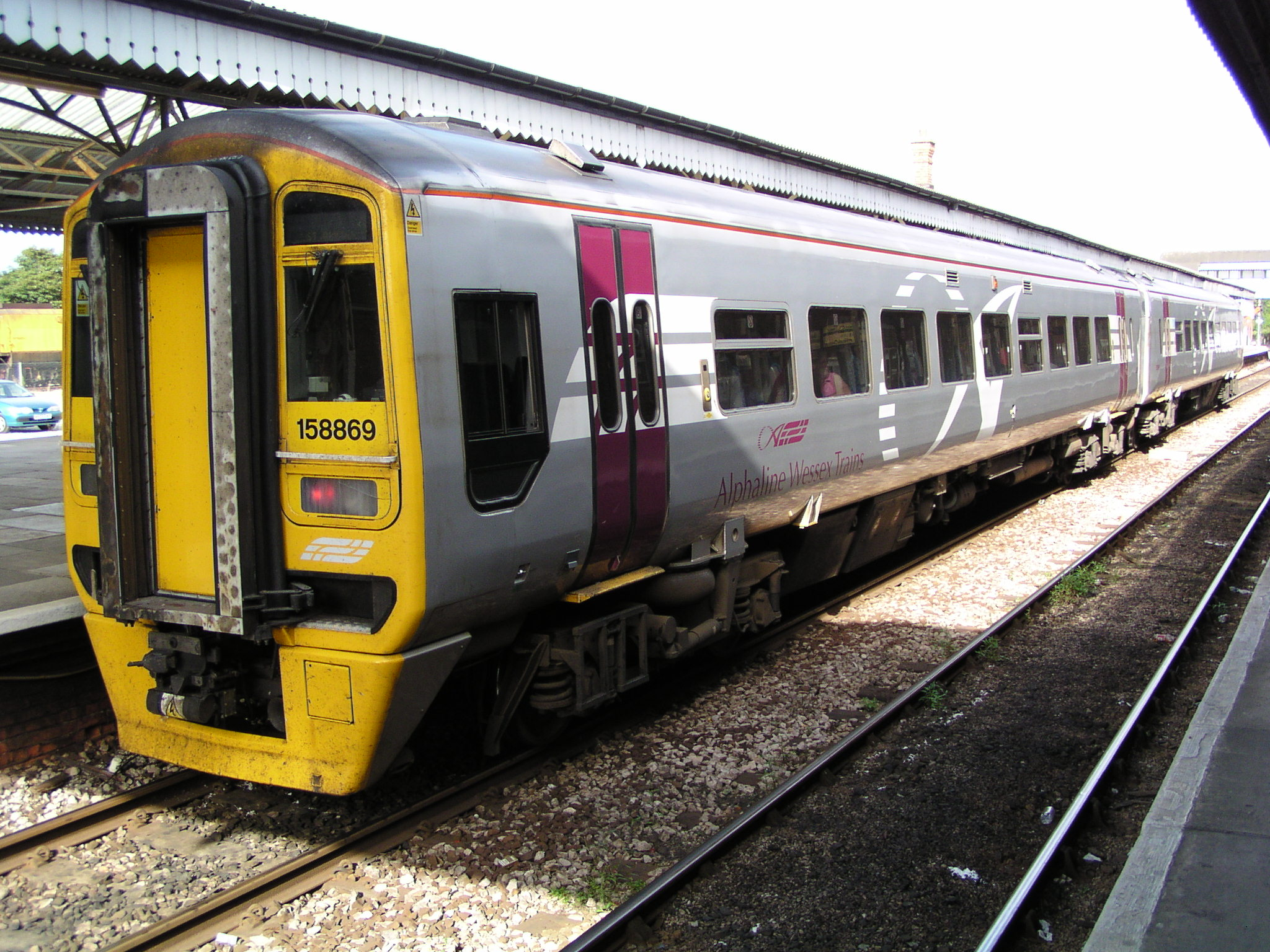 This image was copied from (Image:158869 at Truro.JPG). The original description was: ---- BR Class 158, no. 158869 at Truro on 23rd August 2003.